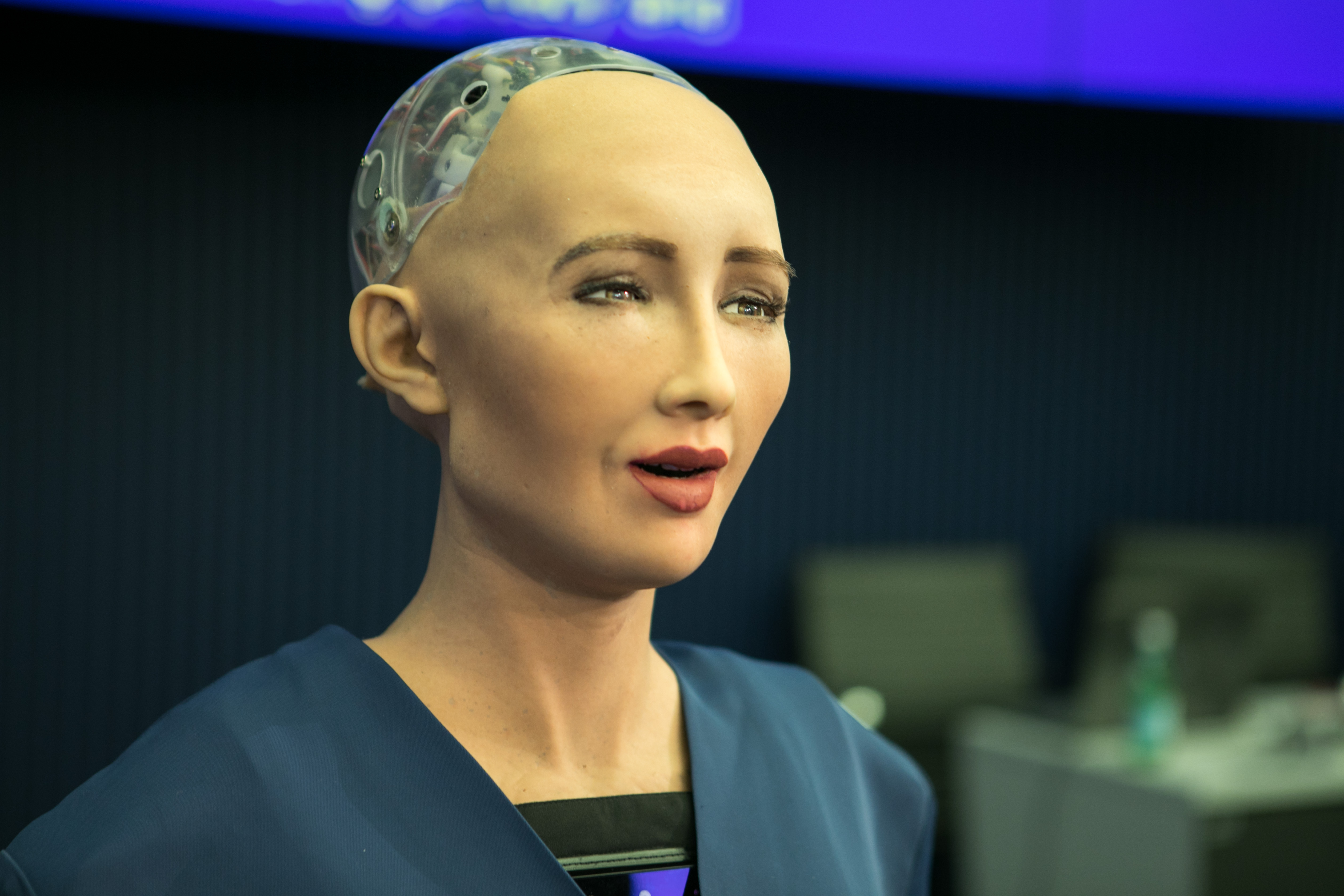 Sophia, Hanson Robotics Ltd. speaking at the AI for GOOD Global Summit, ITU, Geneva, Switzerland, 7 - 9 June, 2017.